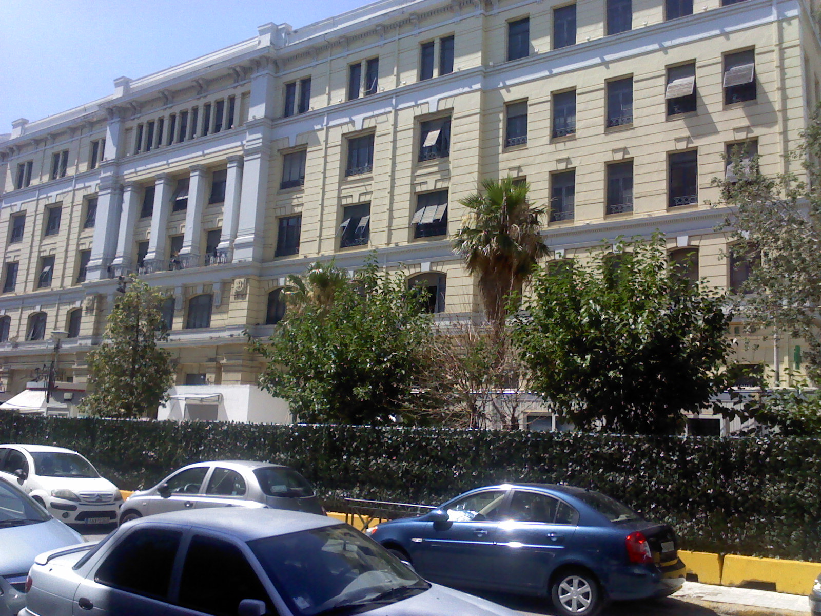 Ktirio HSAP Peiraia